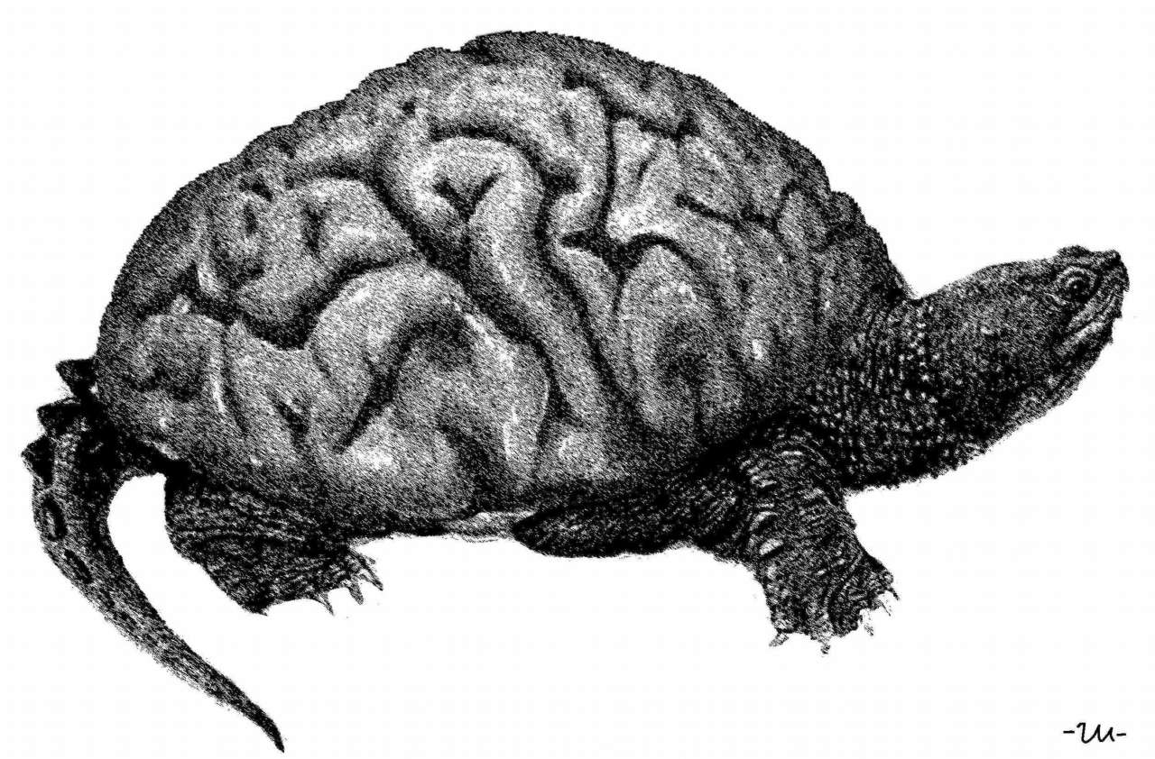 cartoon, 2nd prize on the World Press Cartoon Exhibition 2009., Sintra, Portugal